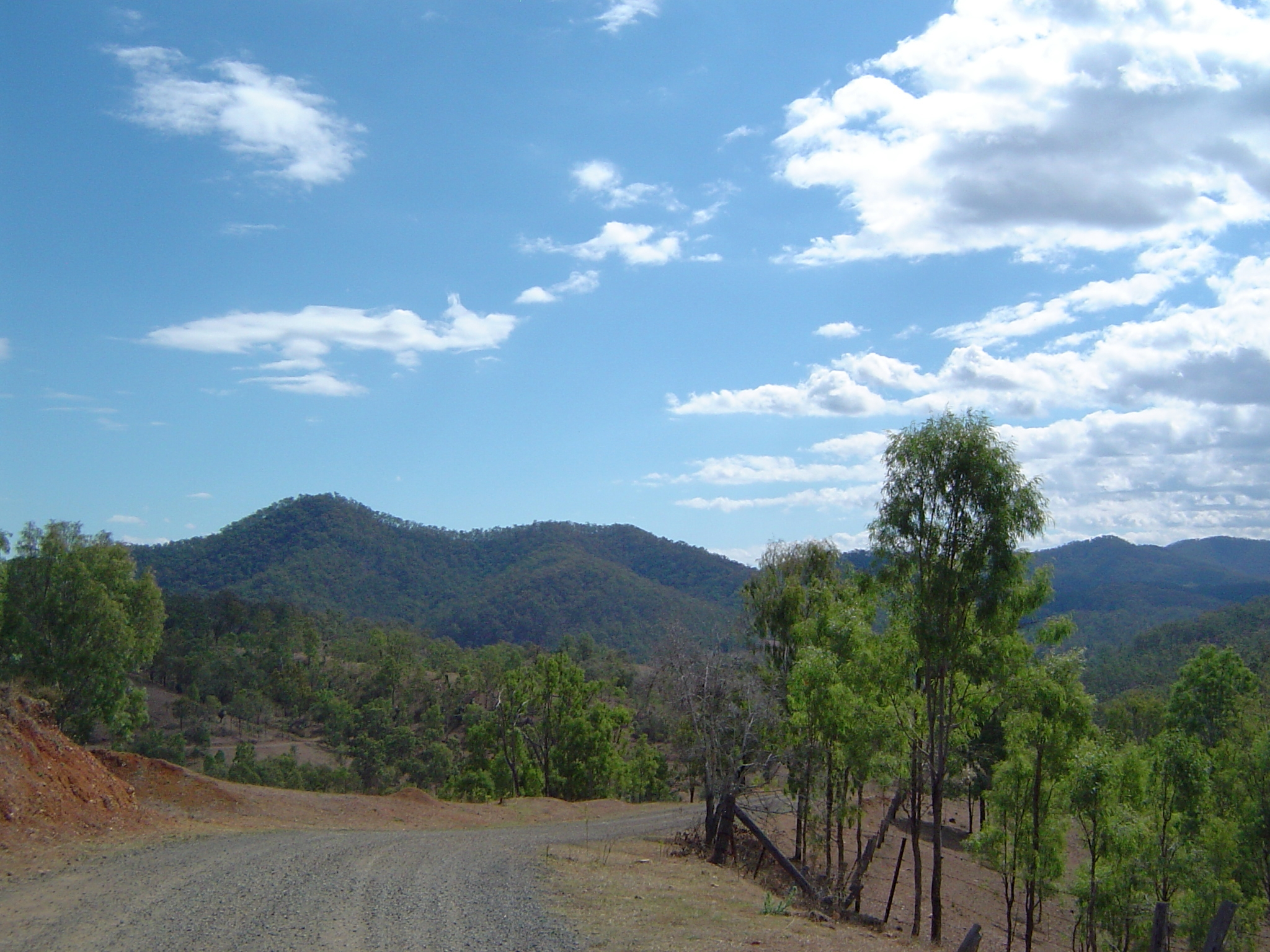 Photo of view north east from England Creek Road England Creek, Somerset Region, Queensland, Australia.